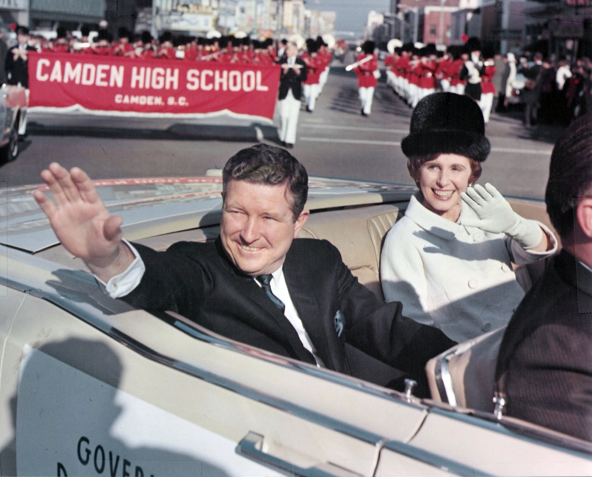 A photograph of Gov. Bob McNair of South Carolina waving to the crowd during his inauguration parade, 1967